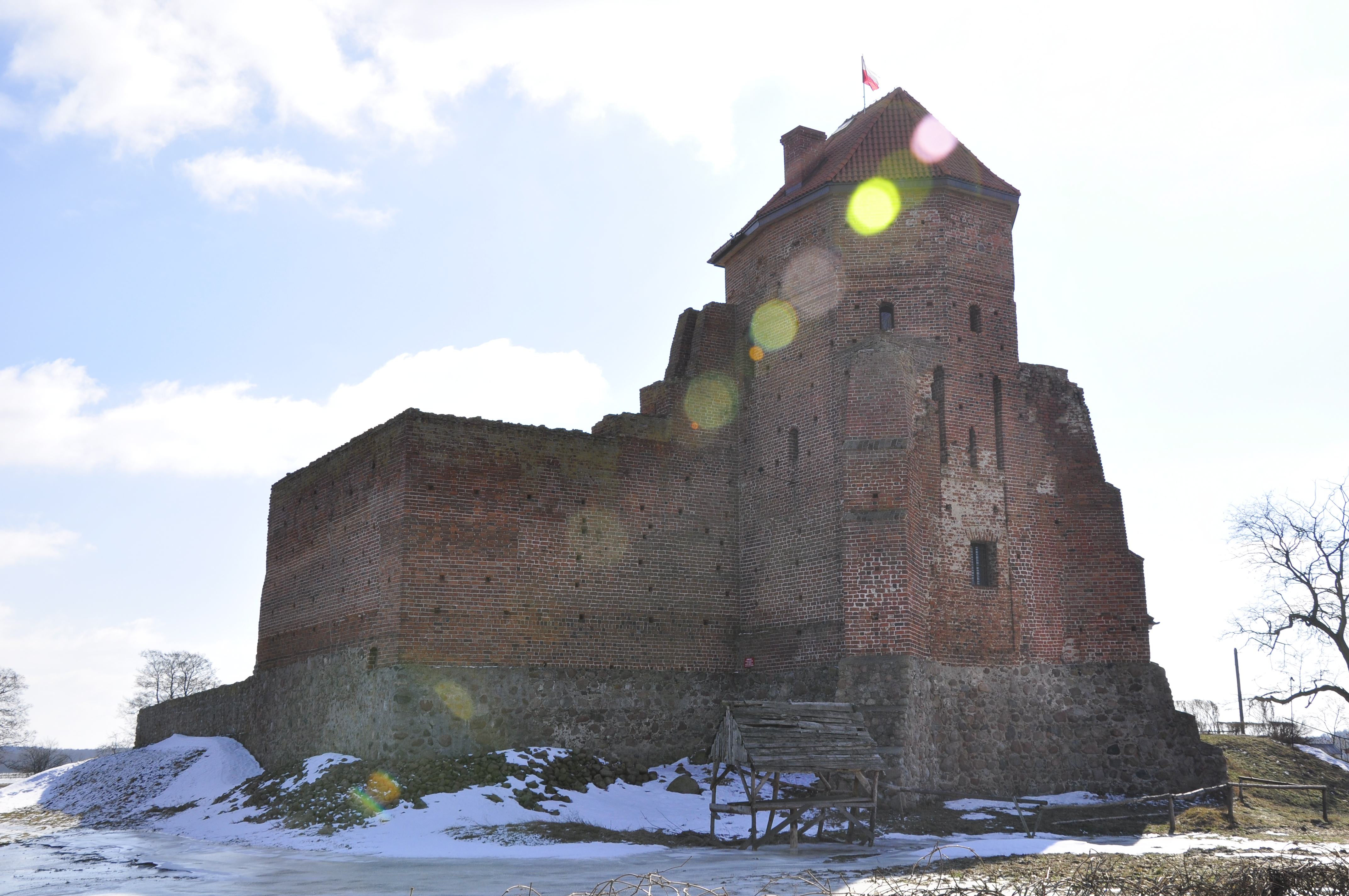 castle and museum Liw